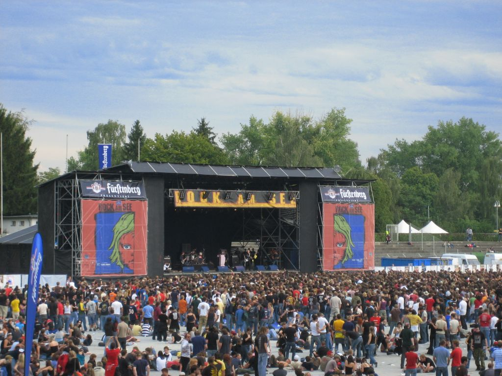 Open air festival in Constance, Germany